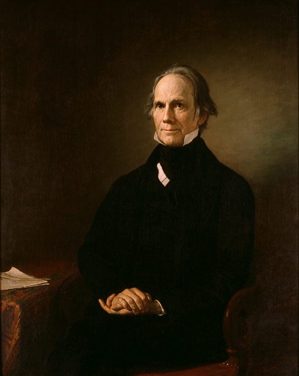 Oil on canvas portrait of Henry Clay by Henry F. Darby (1829-1897) Height: 49.25 inches (125.1 cm) Width: 39.75 inches (101 cm) Signature (lower right corner): H. F. DARBY Cat. no. 32.00002.000